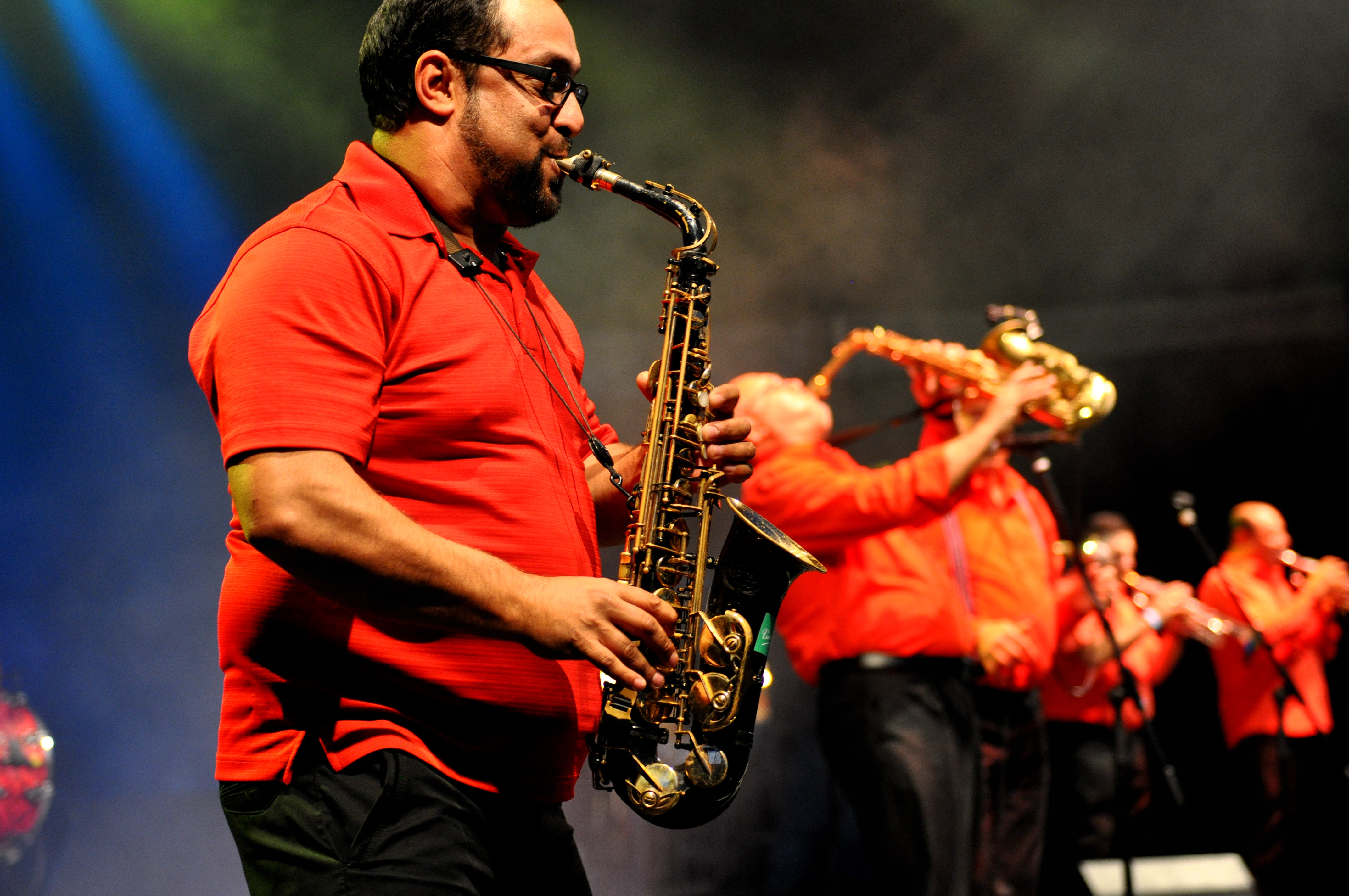 Fanfare Ciocărlia (ROM), Hauptmarkt stage, 40th music festival 'Bardentreffen' 2015 at Nuremberg, Germany Festivalsommer This photo was created with the support of donations to Wikimedia Deutschland in the context of the CPB project "Festival Summer".